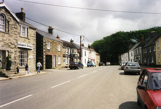 Cuby: Tregony. The main street looking north east. Tregony was at the head of a navigable river in medieval times – with a market – but the Fal became badly silted due to tin streaming and its sea-born trade went to Truro